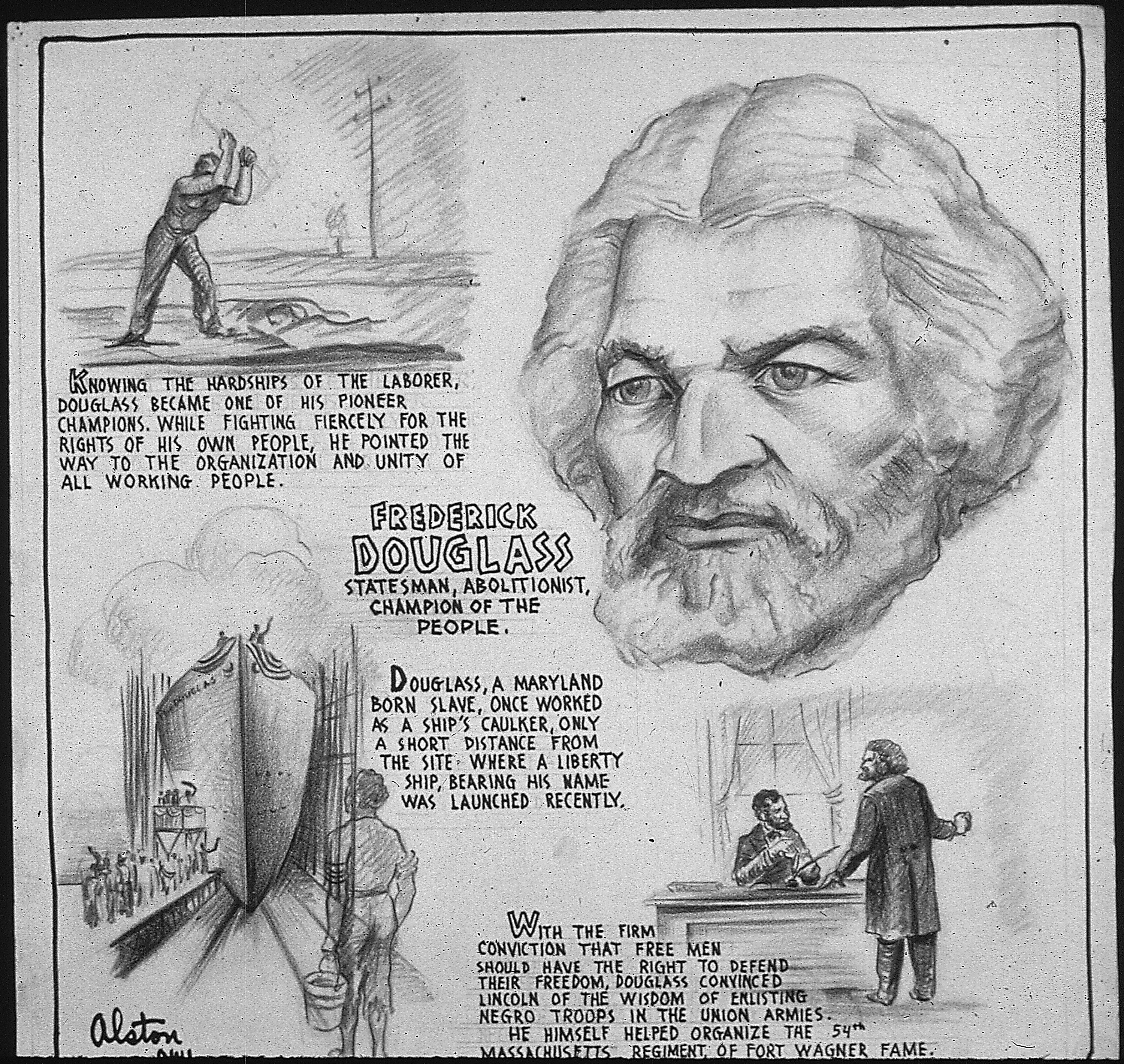 Scope and content: Frederick Douglas - with biographical paragraphs.